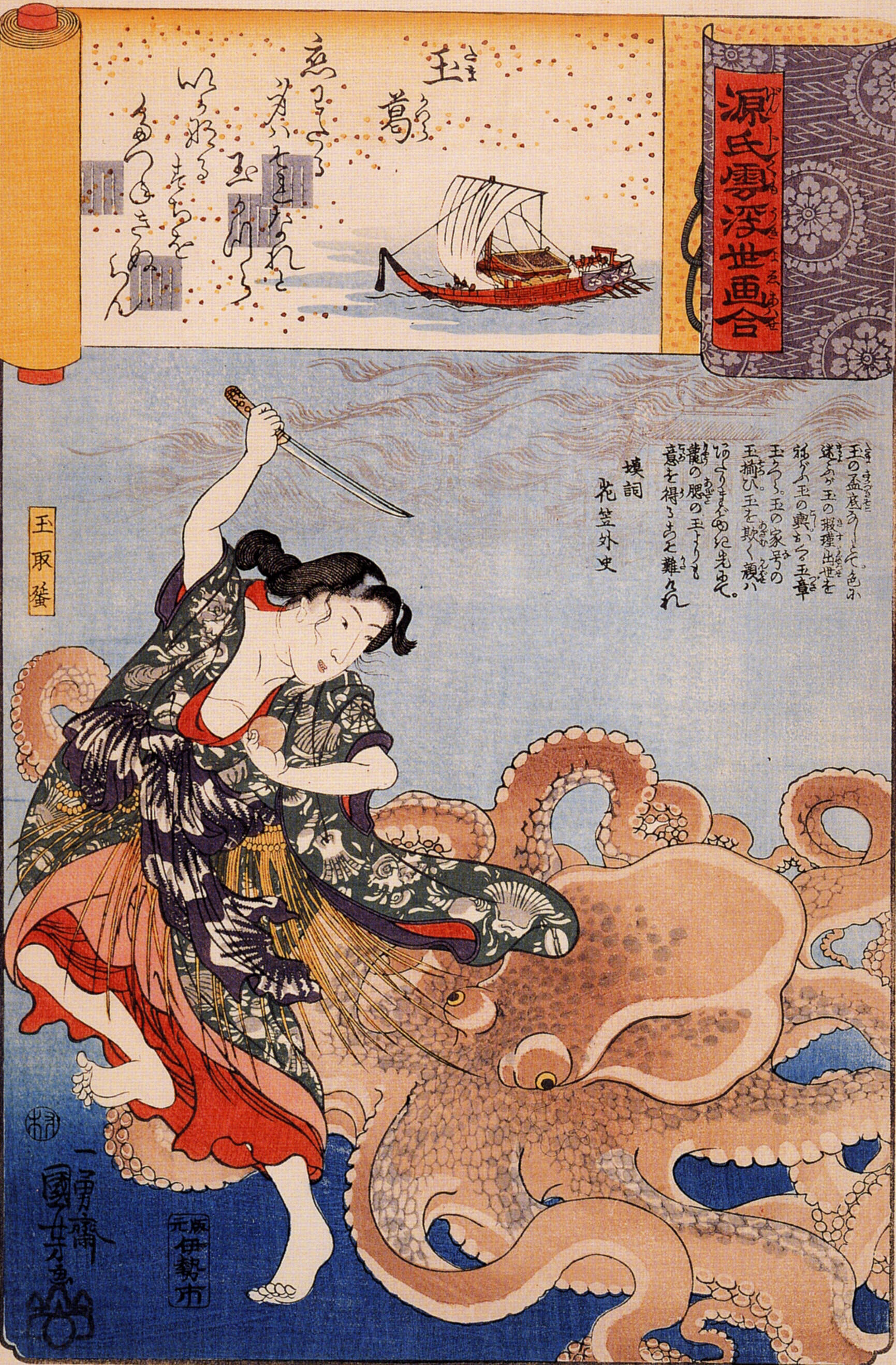 Tamatora has recovered the pearl from the palace on the Dragon king, while she was threatened by all sea creatures.